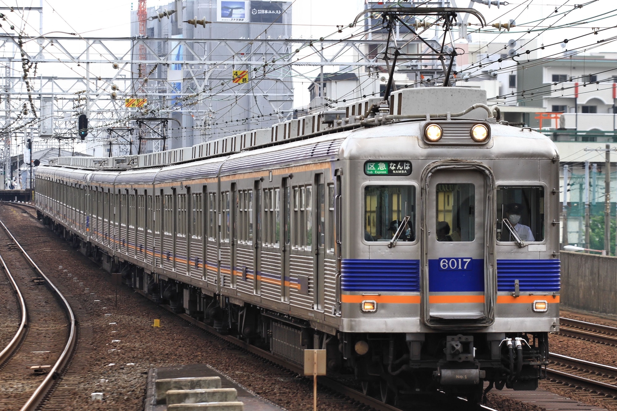 Nankai 6000 series (Photographed at Imamiya-Ebisu station) Canon EOS 7D